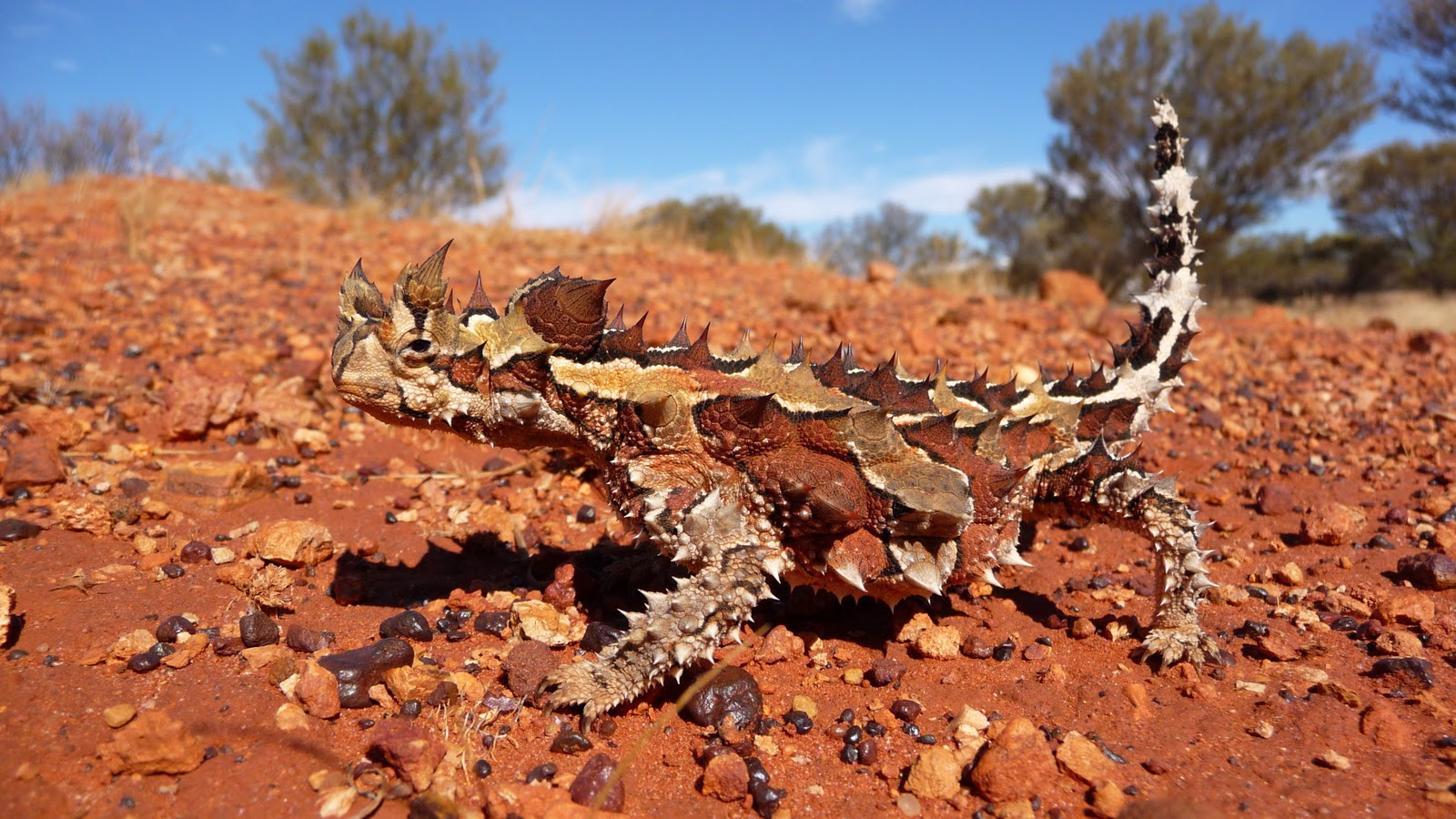 Thorny Devil (Moloch horridus), Northern Territory, Australia